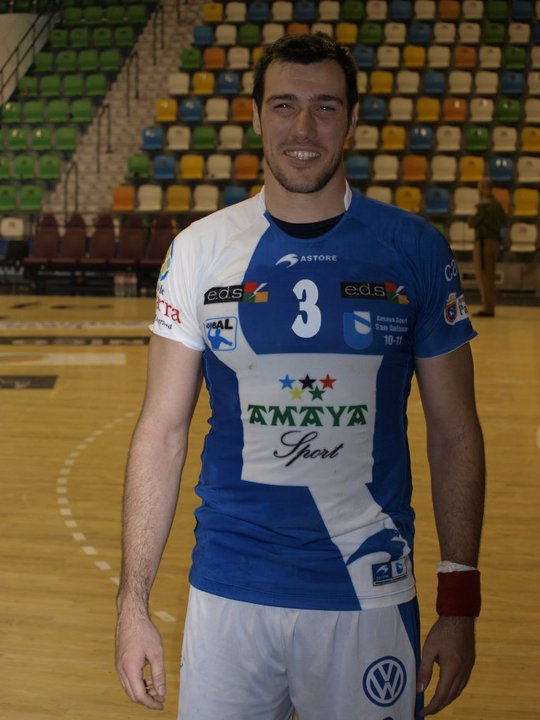 Gedeon Guardiola